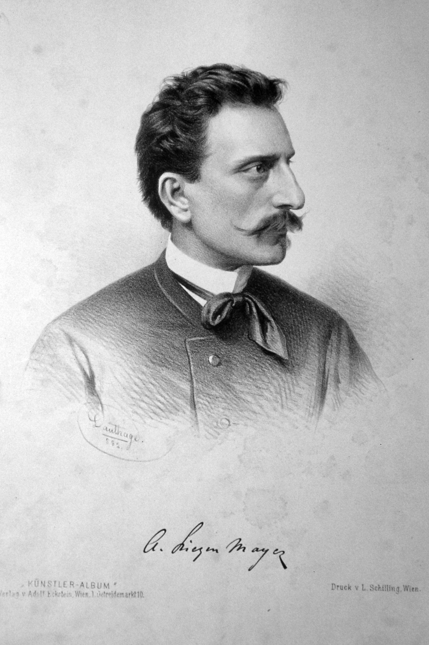 Alexander Liezen-Mayer (1839-1898), Painter Lithograph by Adolf Dauthage, 1882 From "Künstler Album", published by A. Eckstein, Vienna